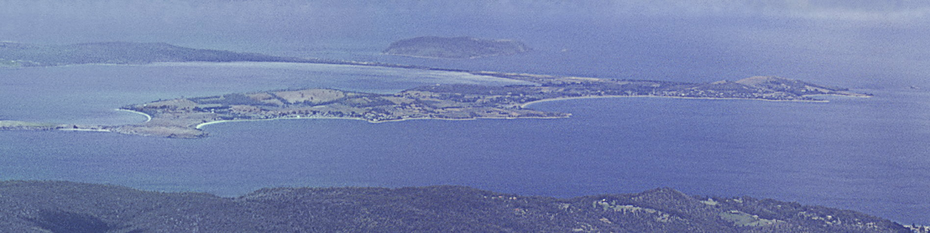 Opossum Bay and South Arm area as seen from the summit of Mt. Wellington.